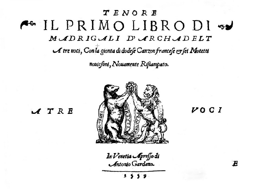 Title page of Arcadelt Primo libro di Madrigali (1559 reissue).